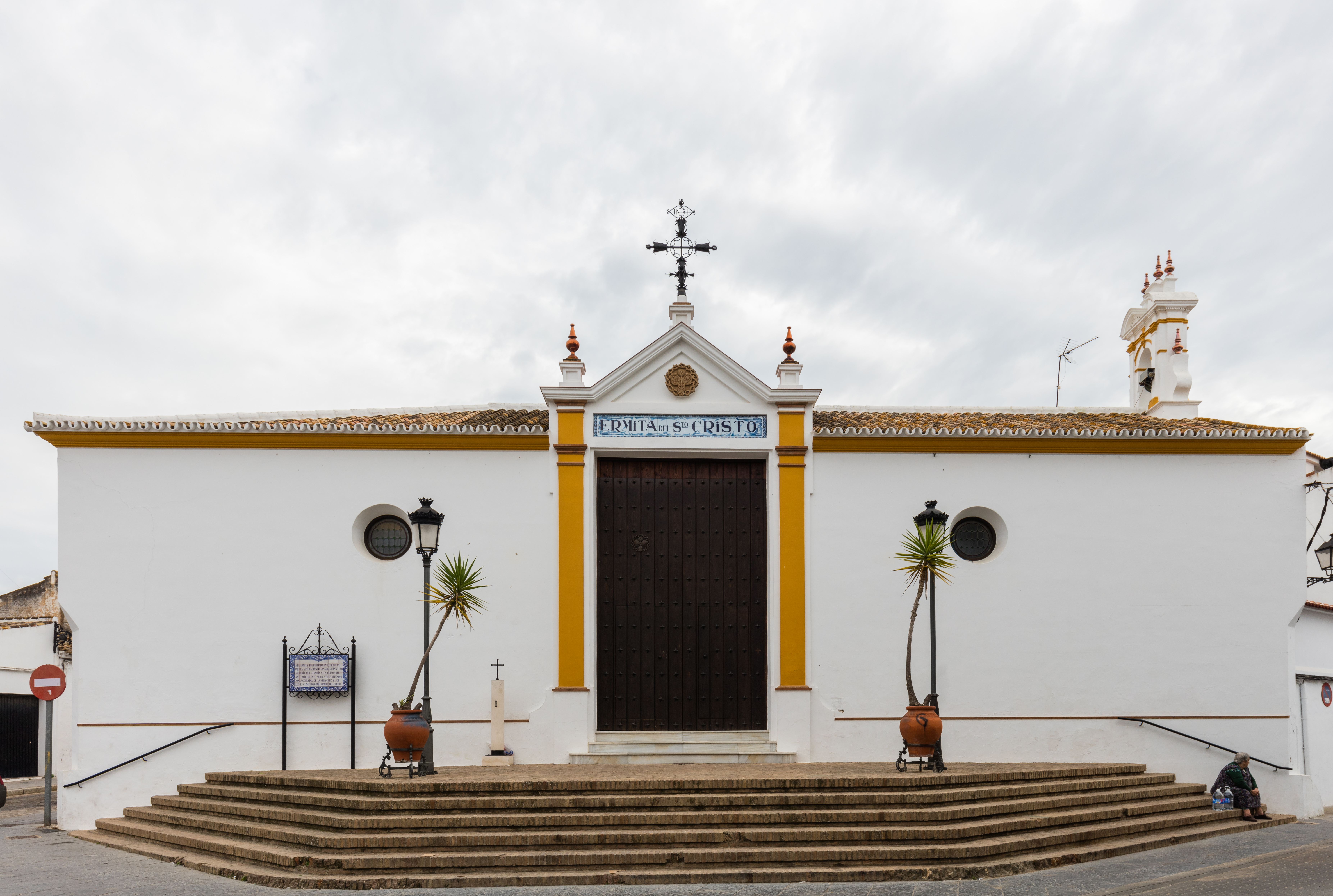 Hermitage of Santo Cristo, Almonte, Huelva, Spain